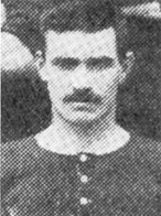 Image is from Liverpool teamphoto in 1897.